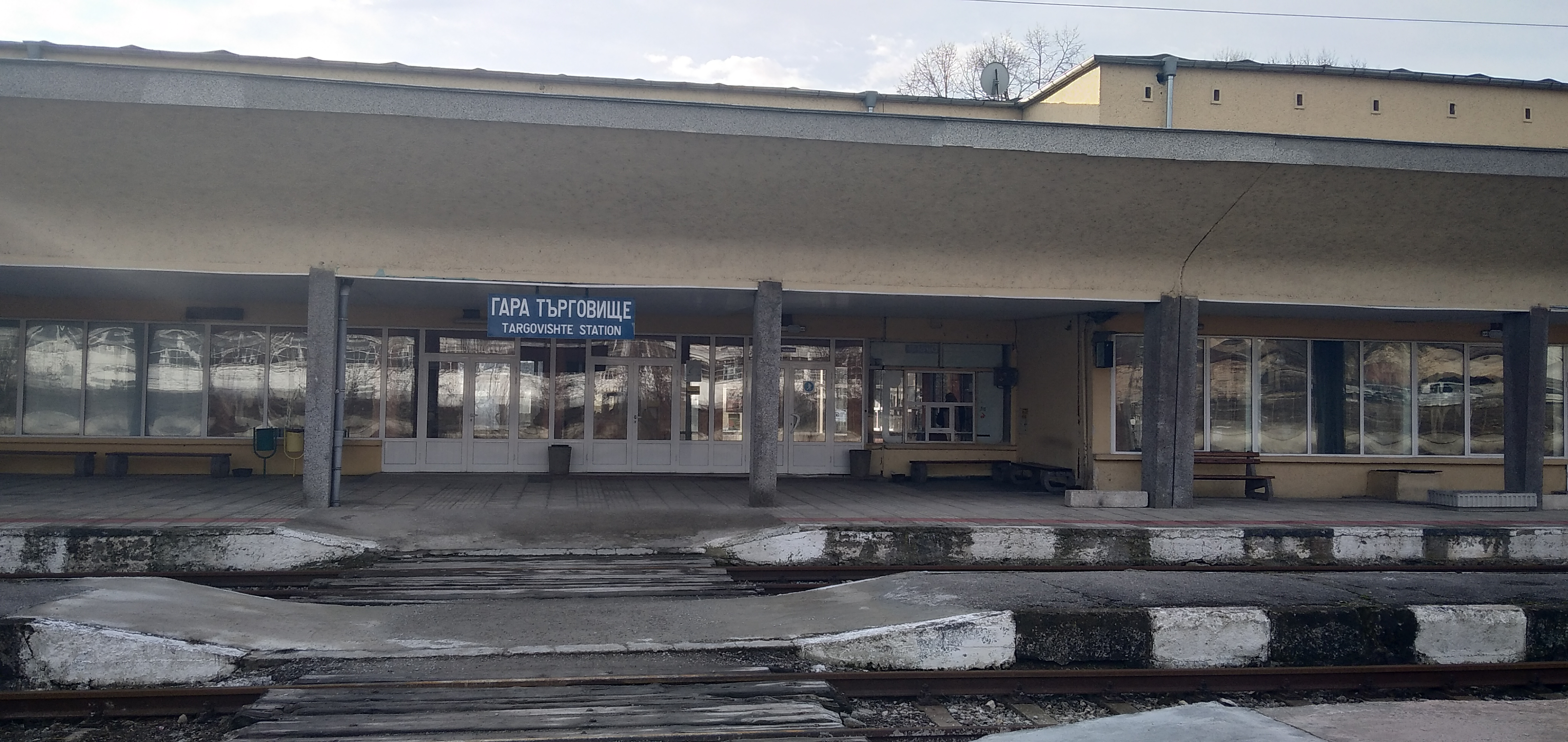 Train station Targovishte